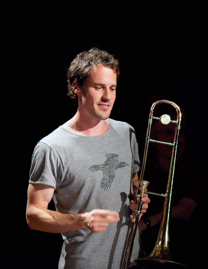 German jazz trombonist Nils Wogram at Cologne 2009